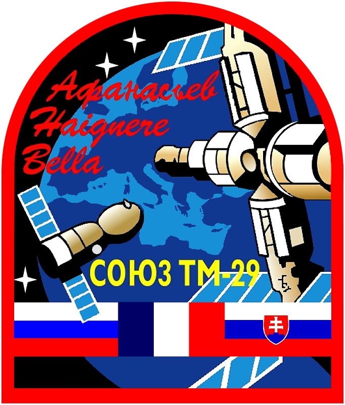 The official crew patch for the Russian Soyuz TM-29 mission, which delivered the EO-27 crew to the space station Mir.